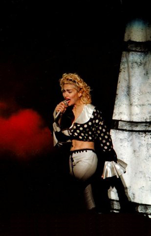 Photo taken during one of the concerts in 1990